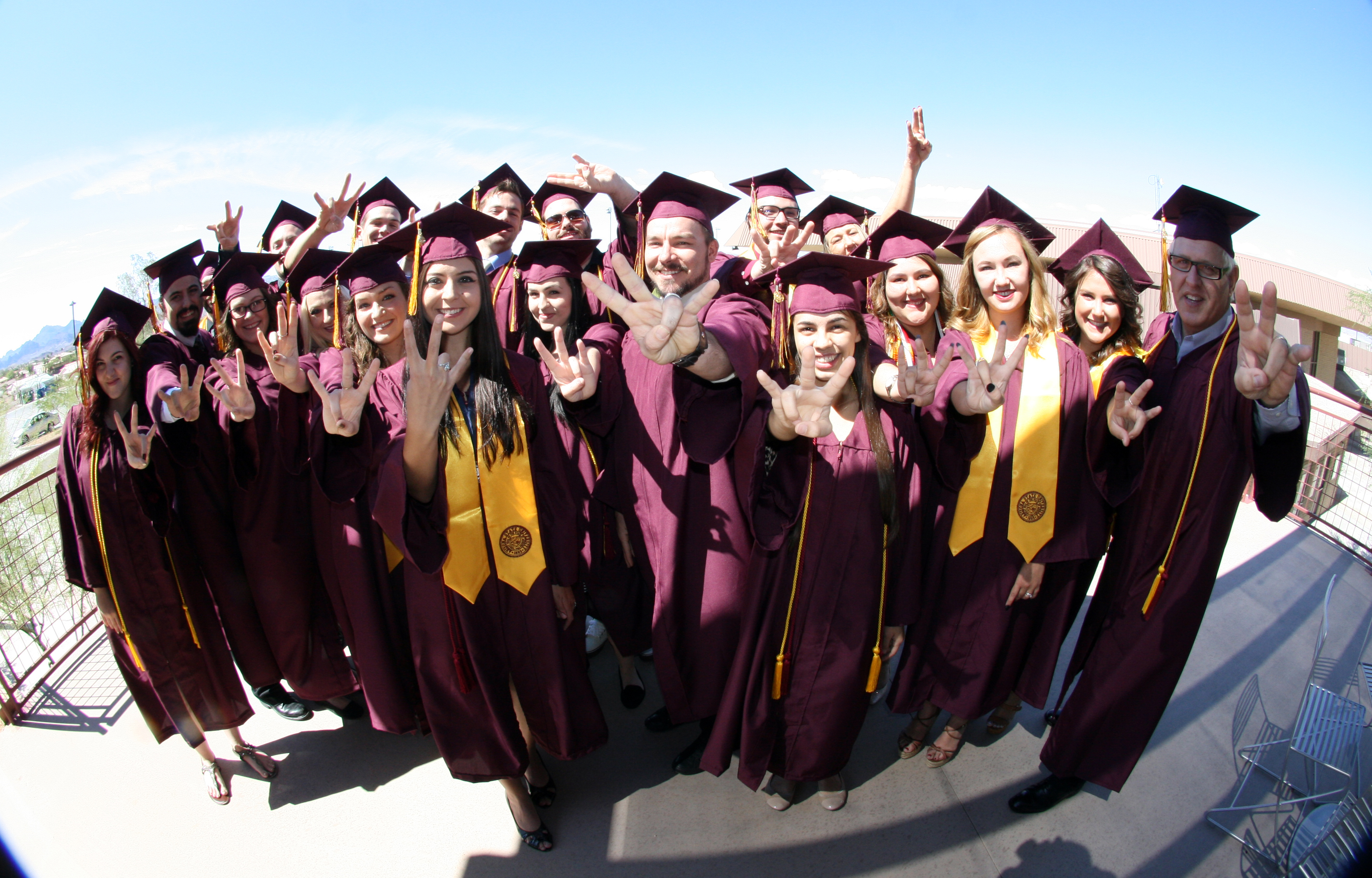 ASU Havasu Grads during Spring 2016 Convocation.